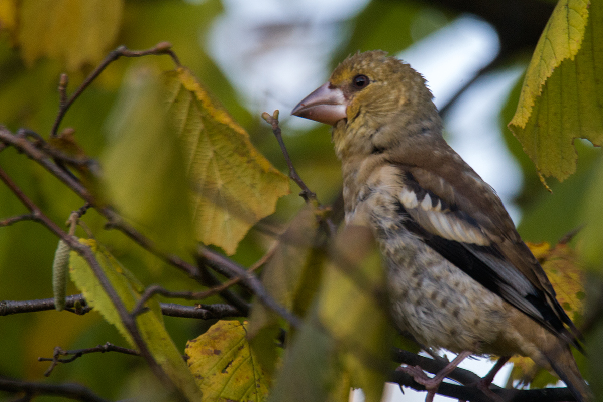 The Hawfinch Lodz(Poland)